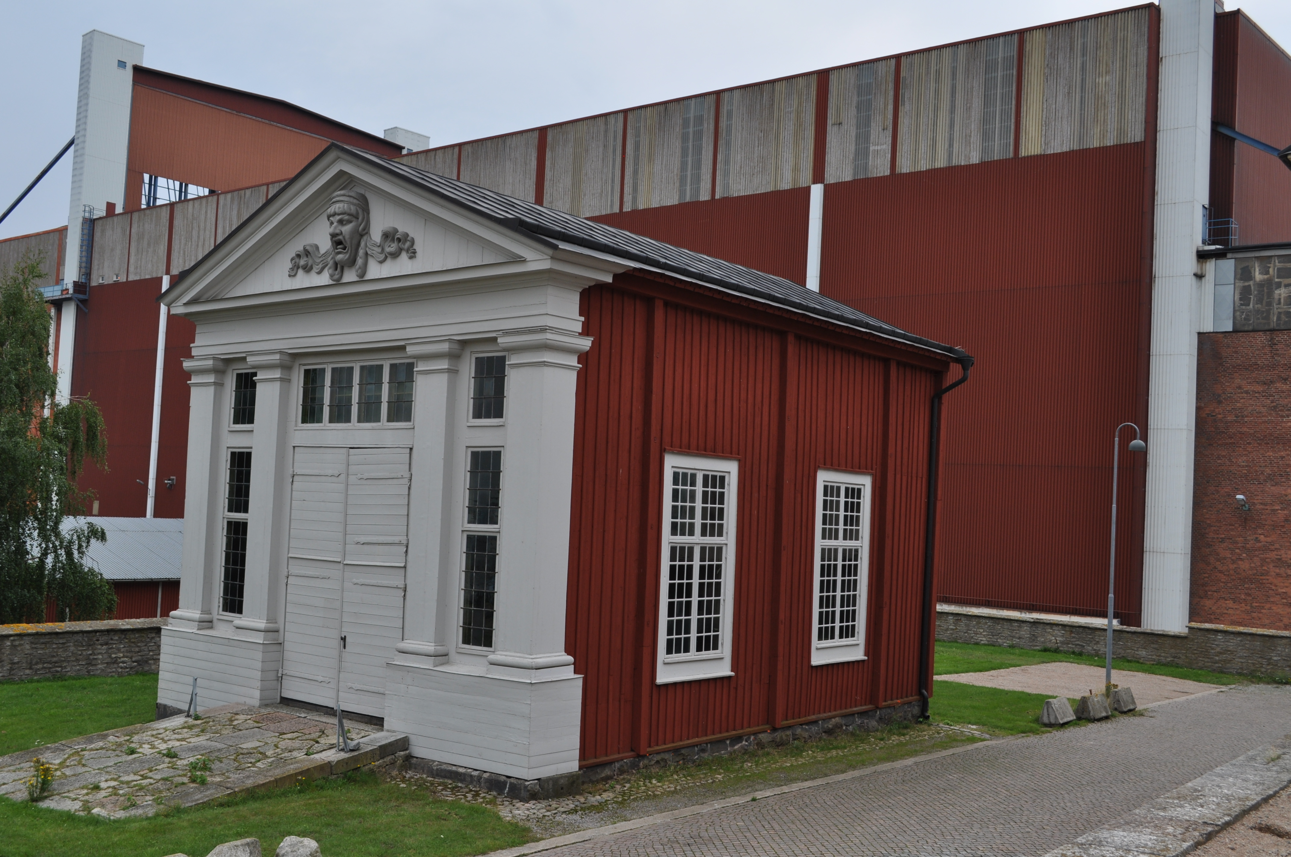 Karlskrona naval port - Bildhuggarverkstaden